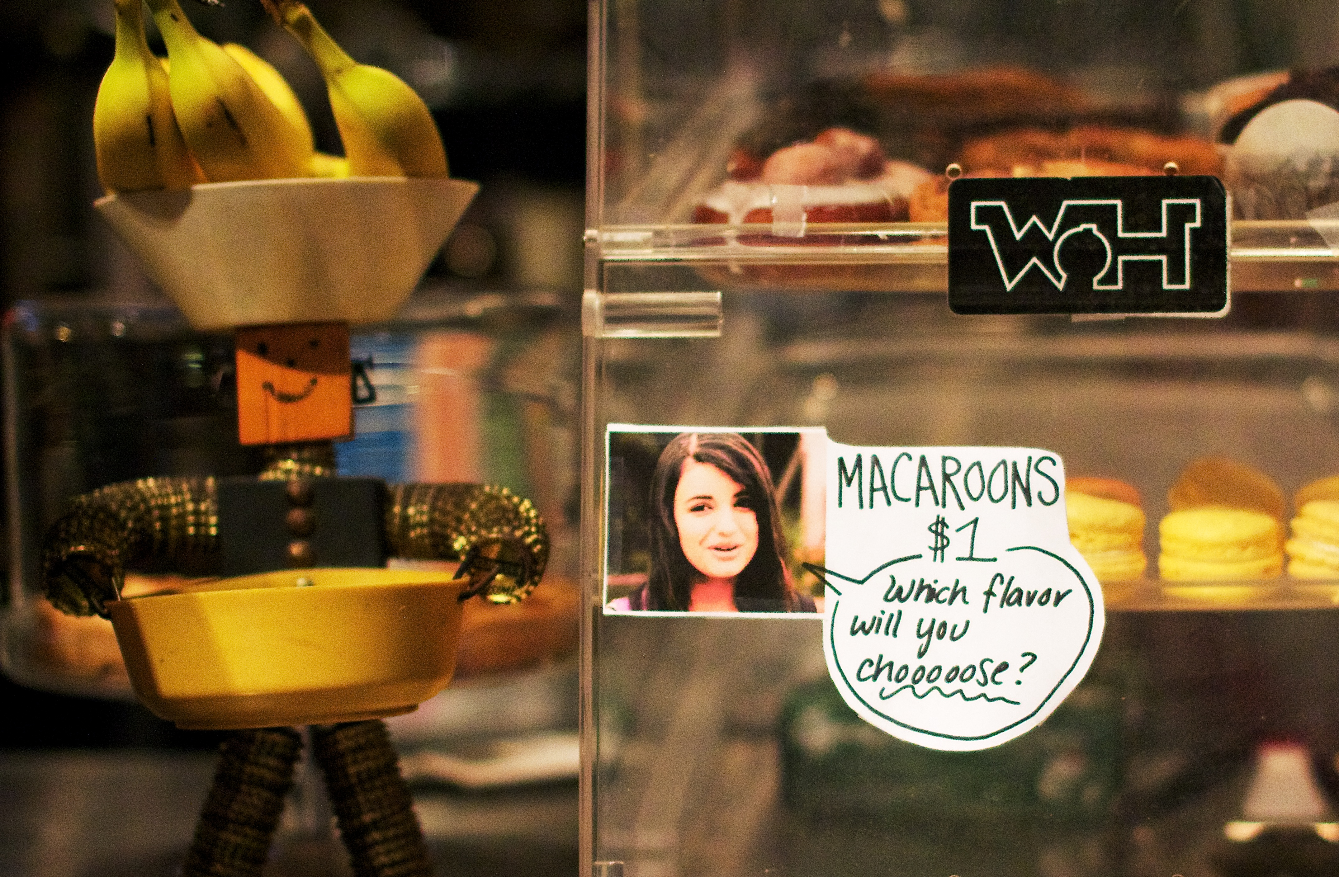 Um, I not sure what this image is, but i think it's a parady of rebecca black.